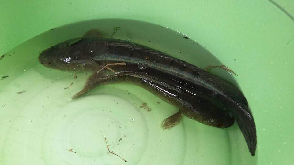 Snakehead Murrel of Bangladesh